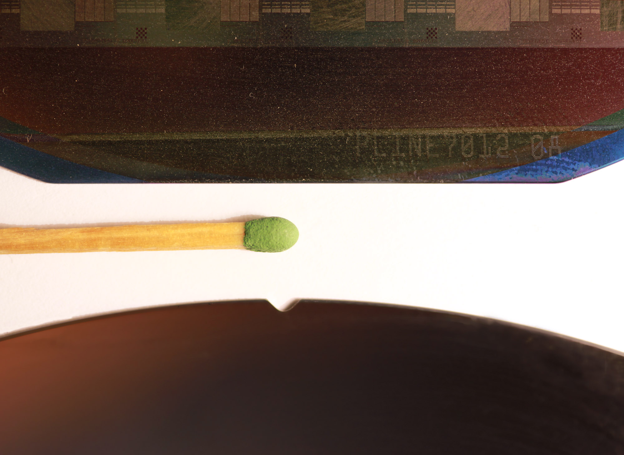 Flat (top) and Notch (below) of semiconductor wafers (6 Inch and 200 mm Silicon)